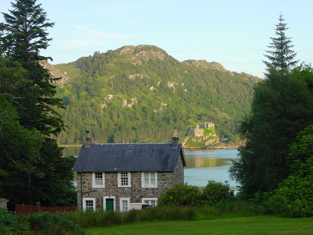 Tioram Cottage on [{Eilean Shona , Inner Hebrides, Scotland, with Castle Tioram in the background. Tioram is Scottish Gaelic for "dry", but in this case, it derives from Castle Tioram on the opposite shore, which takes its name from the eilean tioram or "dry island" (i.e. tidal) on which it is situated.